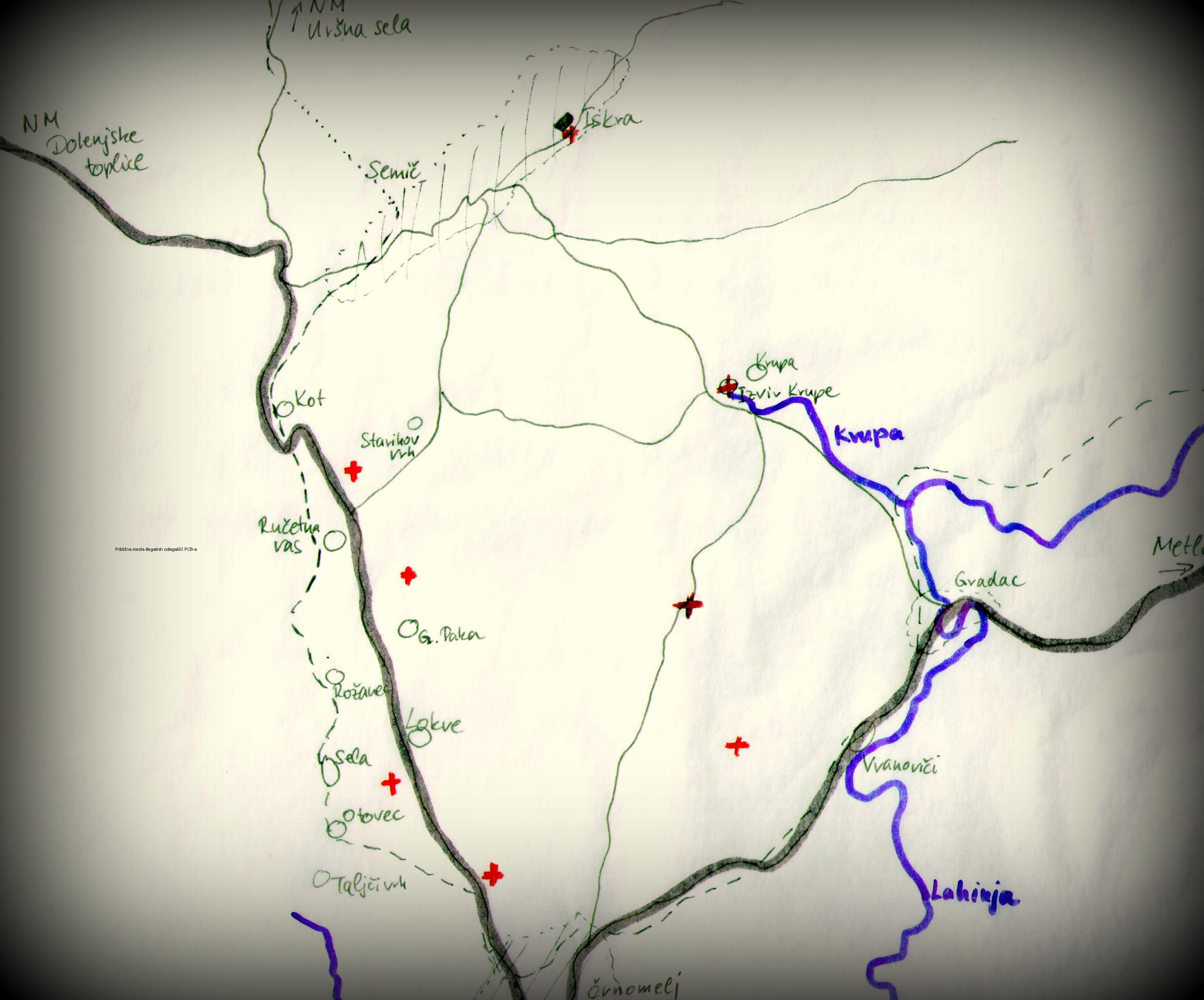 Approximate former locations of the illegal PCB dumps in the Bela krajina region according to the information provided by Božo Flajšman in Dolenjski list article :"Je v Beli krajini ogroženih nekaj tisoč ljudi?" (